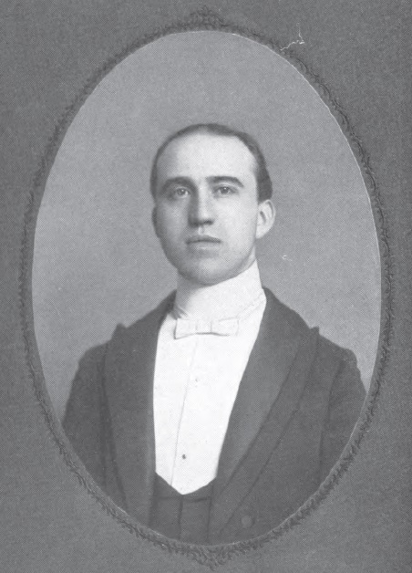 Portrait of Valentine Abt, mandolin player and American composer.